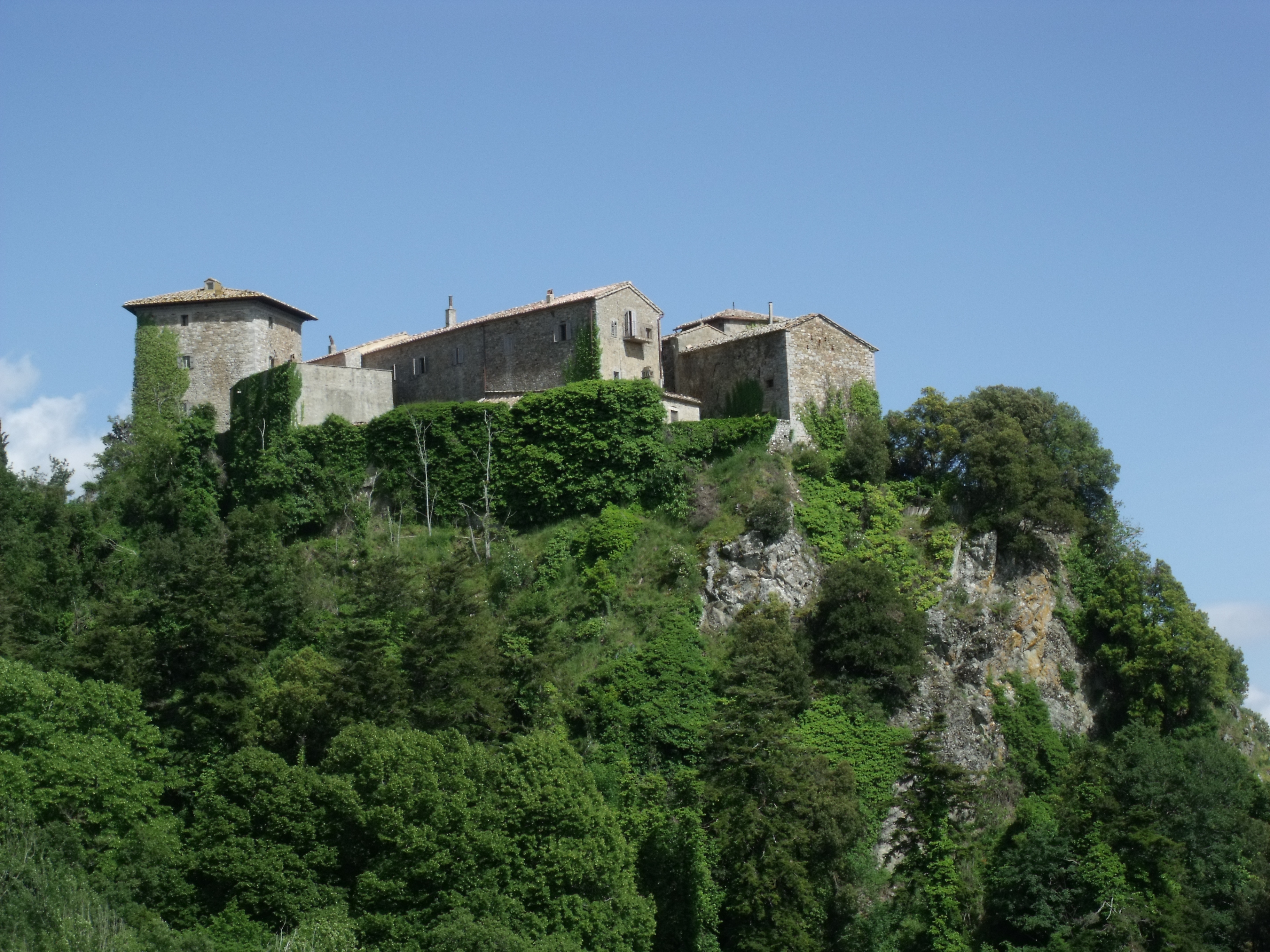 Castle Triana, in the hamlet of Triana, Roccalbegna, Province of Grosseto, Tuscany, Italy